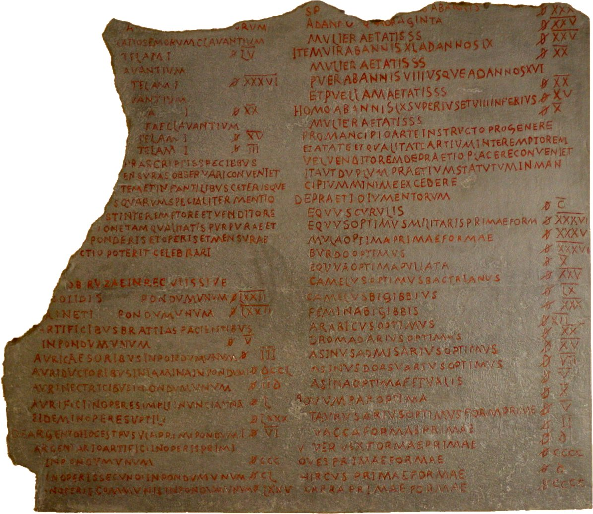 Piece of Edict on Maximum Prices: Here a molded Copy in the Antikensammlung Berlin/Pergamonmuseum, Property of the Münzkabinett Berlin further Informations